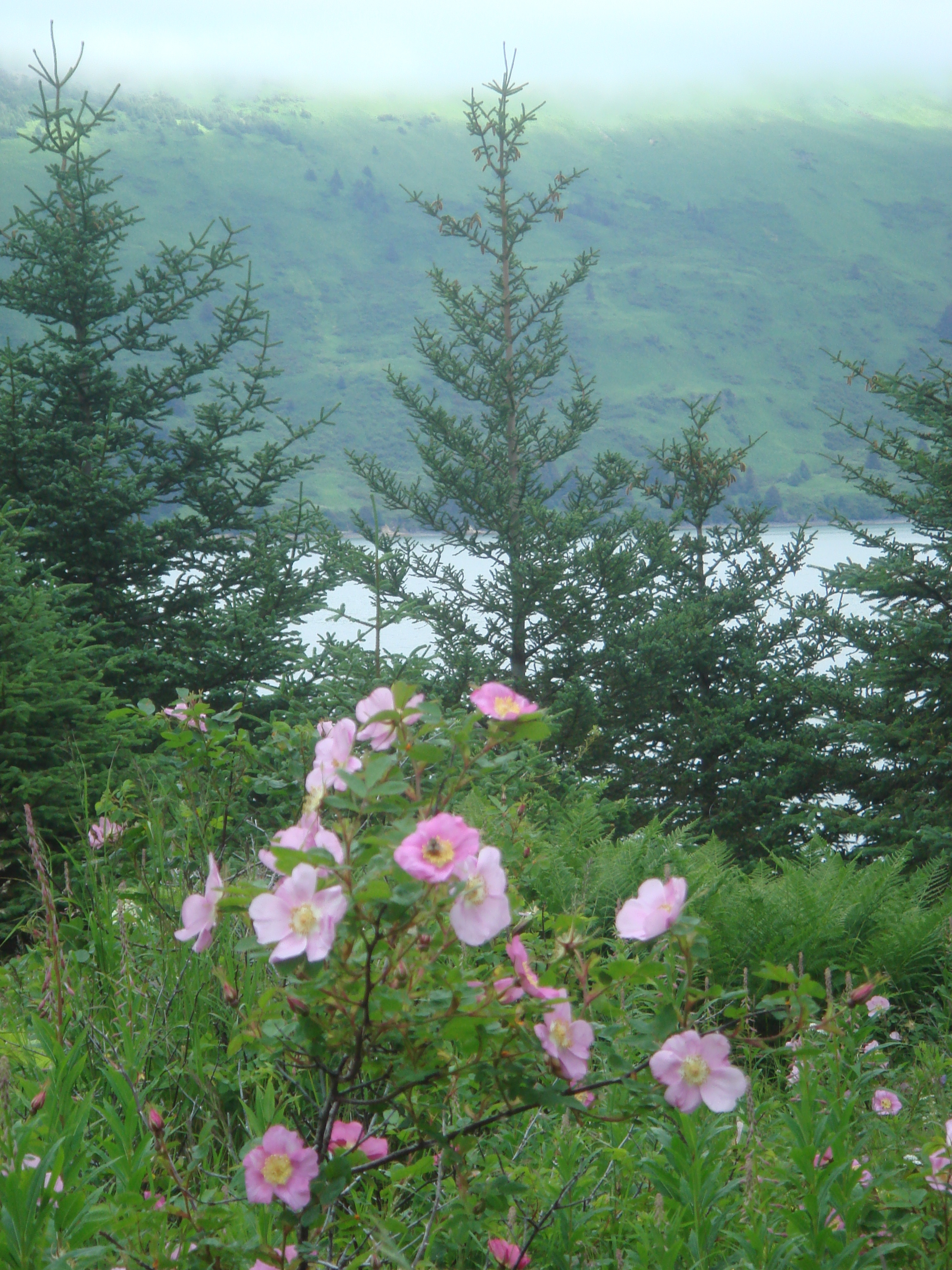 mountain roses (Rosa woodsii) and sitka spruce (Picea sitchensis) on Raspberry Island